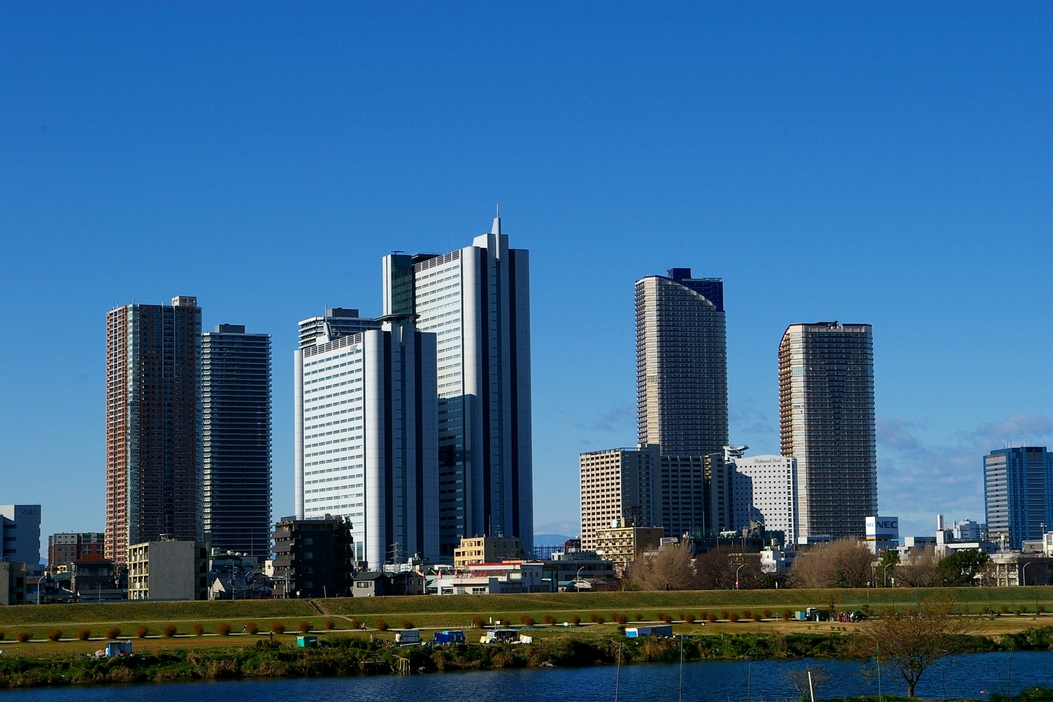 I took this picture in Tokyo in Nov, 2008.